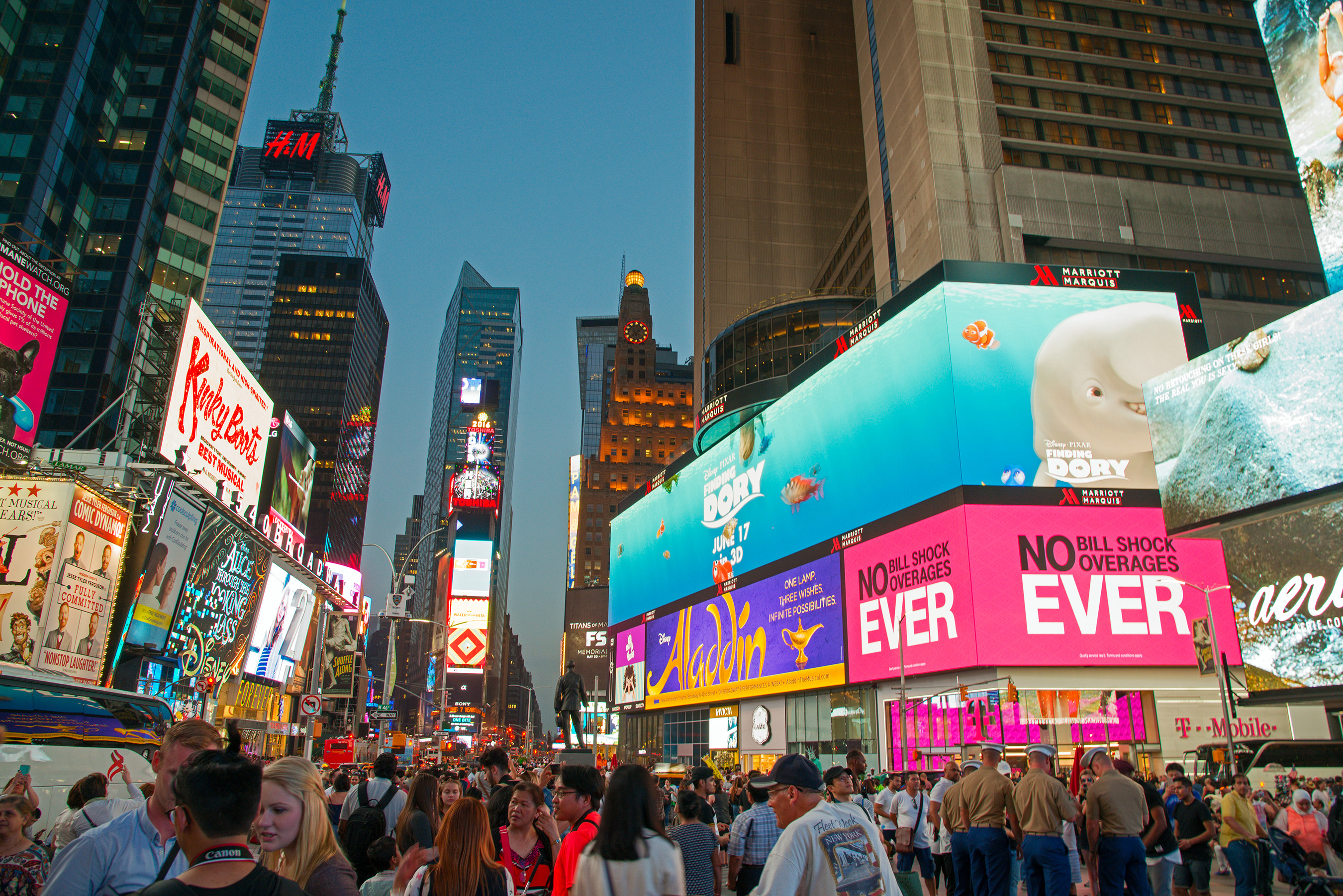 Times Square, Broadway in evening, May 2016